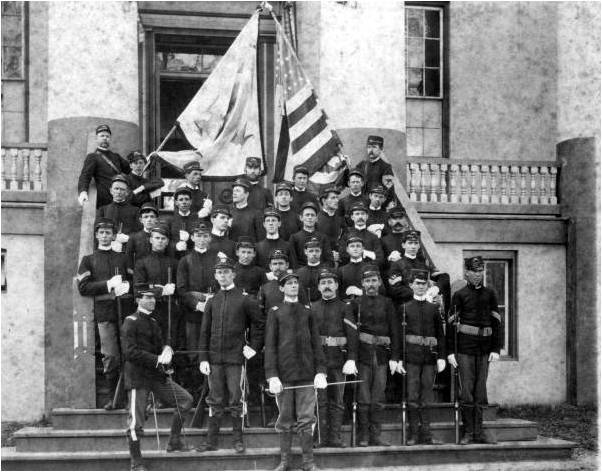 The Tallahassee Infantry Company was known as the “Governor’s Guards”, part of the 2nd Florida Infantry. Infantrymen posing in on the Capitol steps in 1899. Nearly every Infantry company in Florida volunteered to fight in the Spanish American War, though only few soldiers were chosen. RC00883